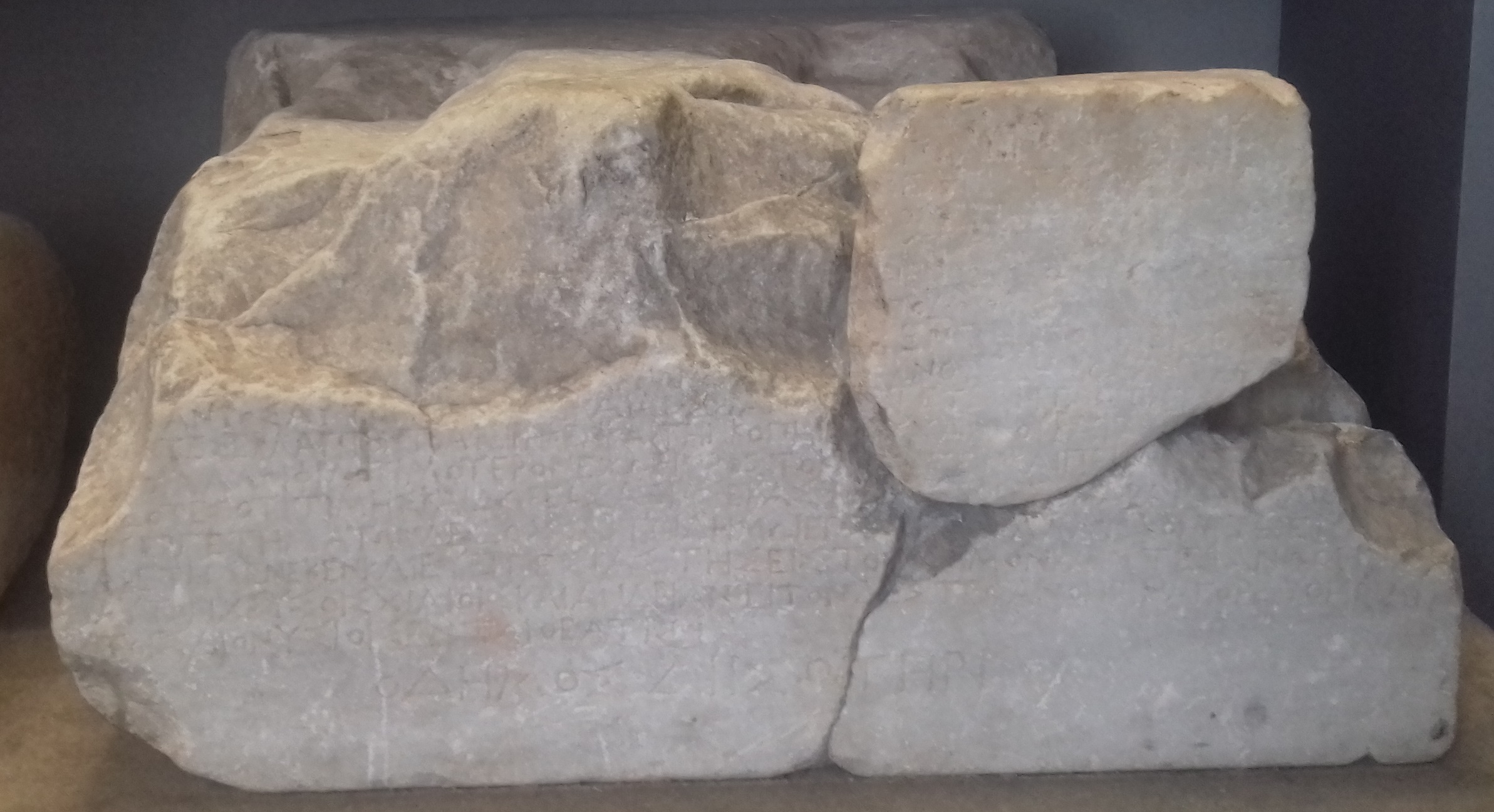 Pedestal of statue in honour of Kallinikos. Olbia. 4th c. BC. Odessa Archeological Museum